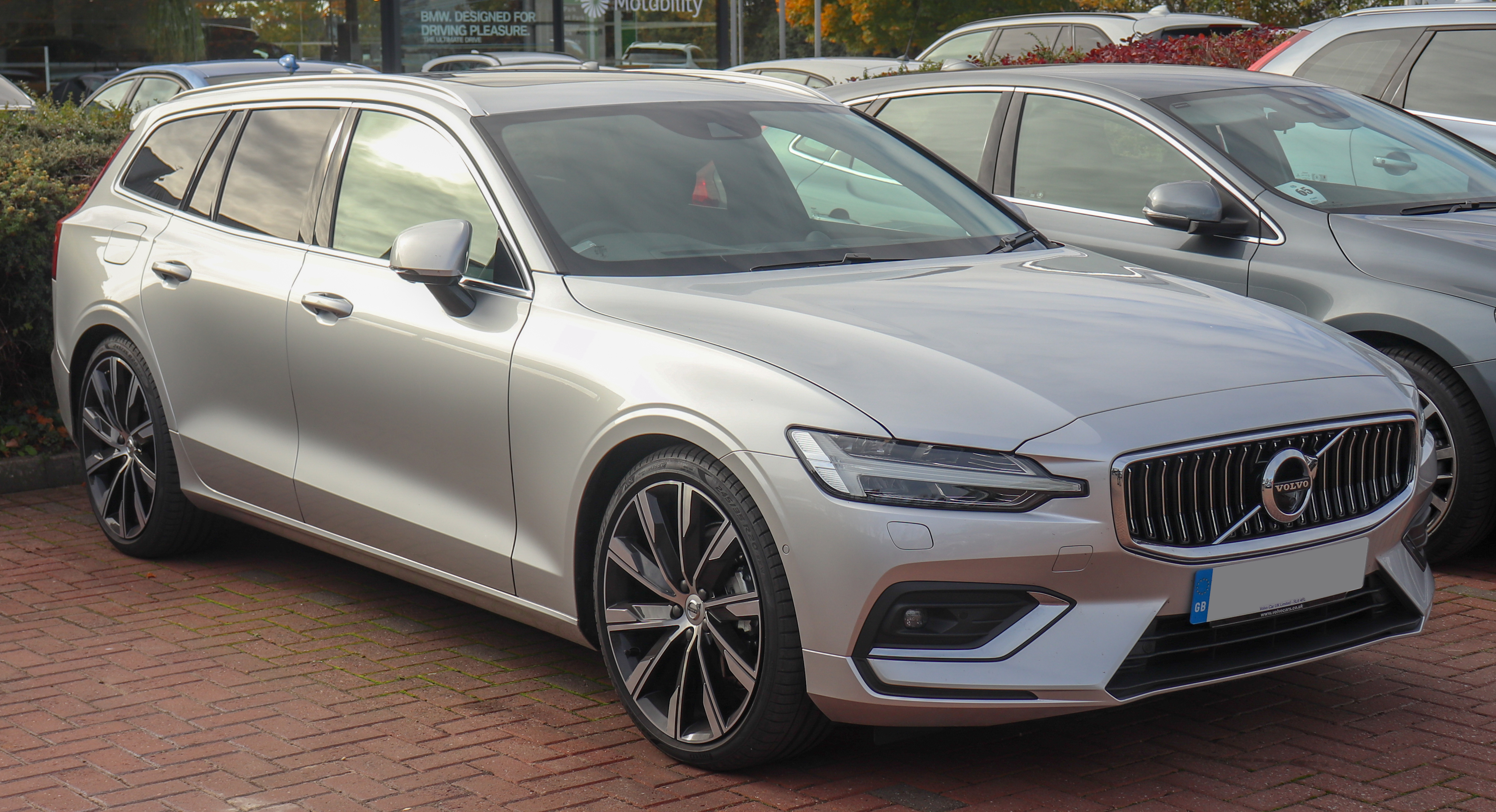 2018 Volvo V60 Inscription PRO D4 Automatic 2.0 Taken in Leamington Spa